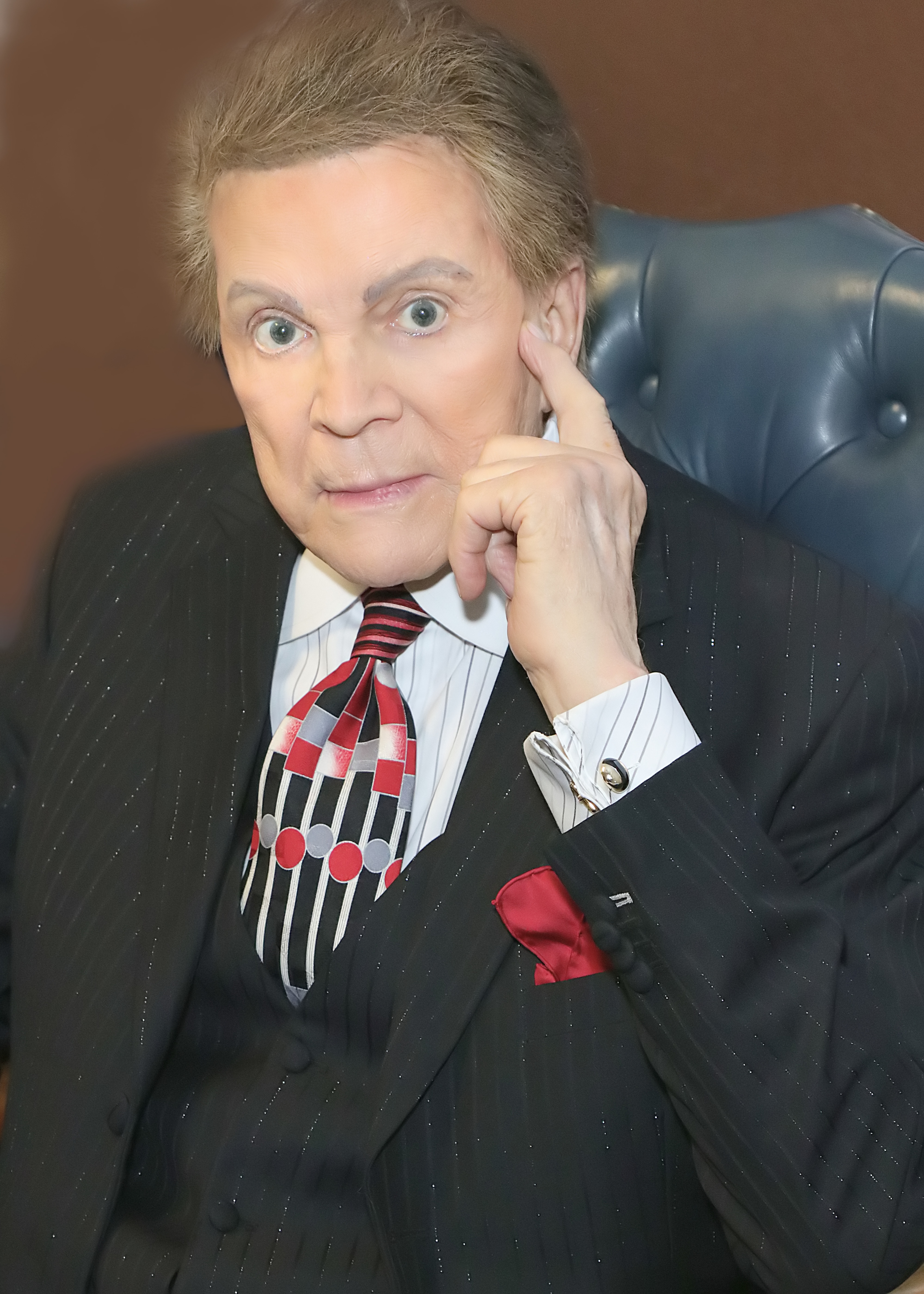 Mel Novak